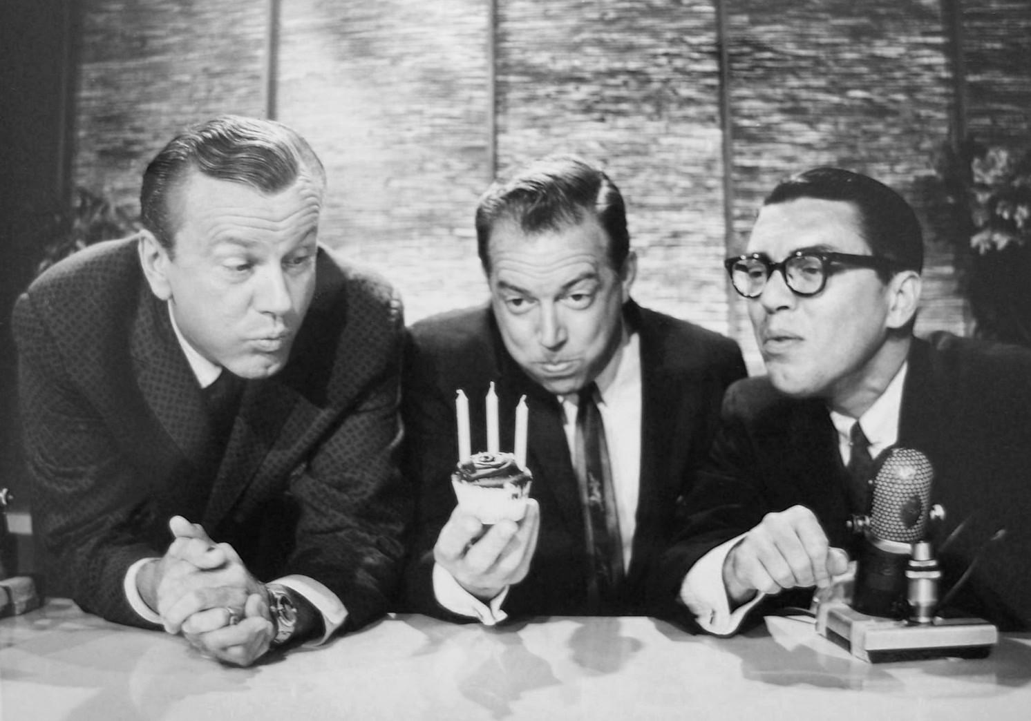 Photo of (from left) Jack Paar, Hugh Downs and Jose Melis from the Jack Paar Tonight Show. Downs was the announcer and Melis was the bandleader for the time Paar hosted the program.